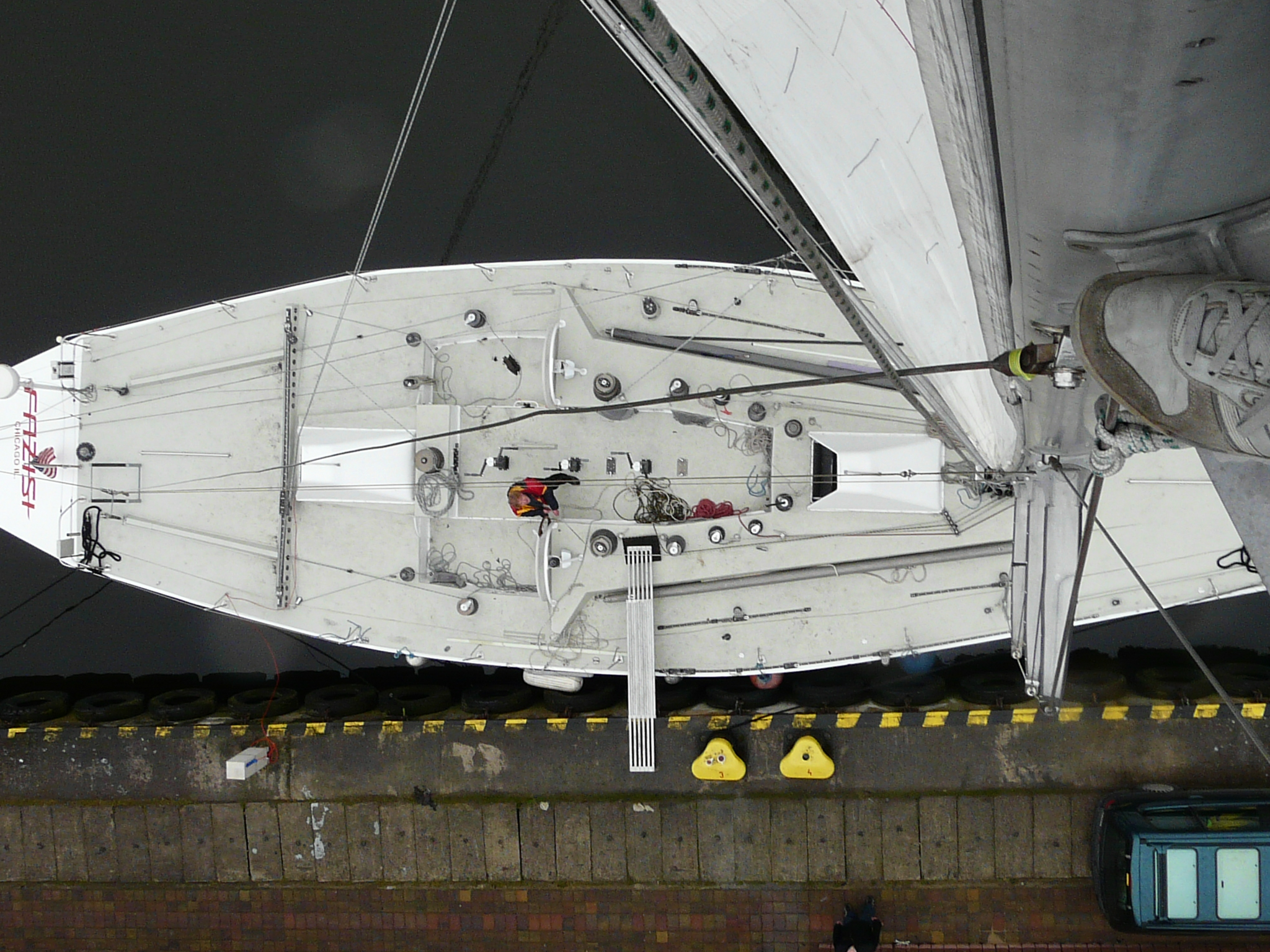 SY Fazisi, sailing yacht of Polish Yachting Association of North America